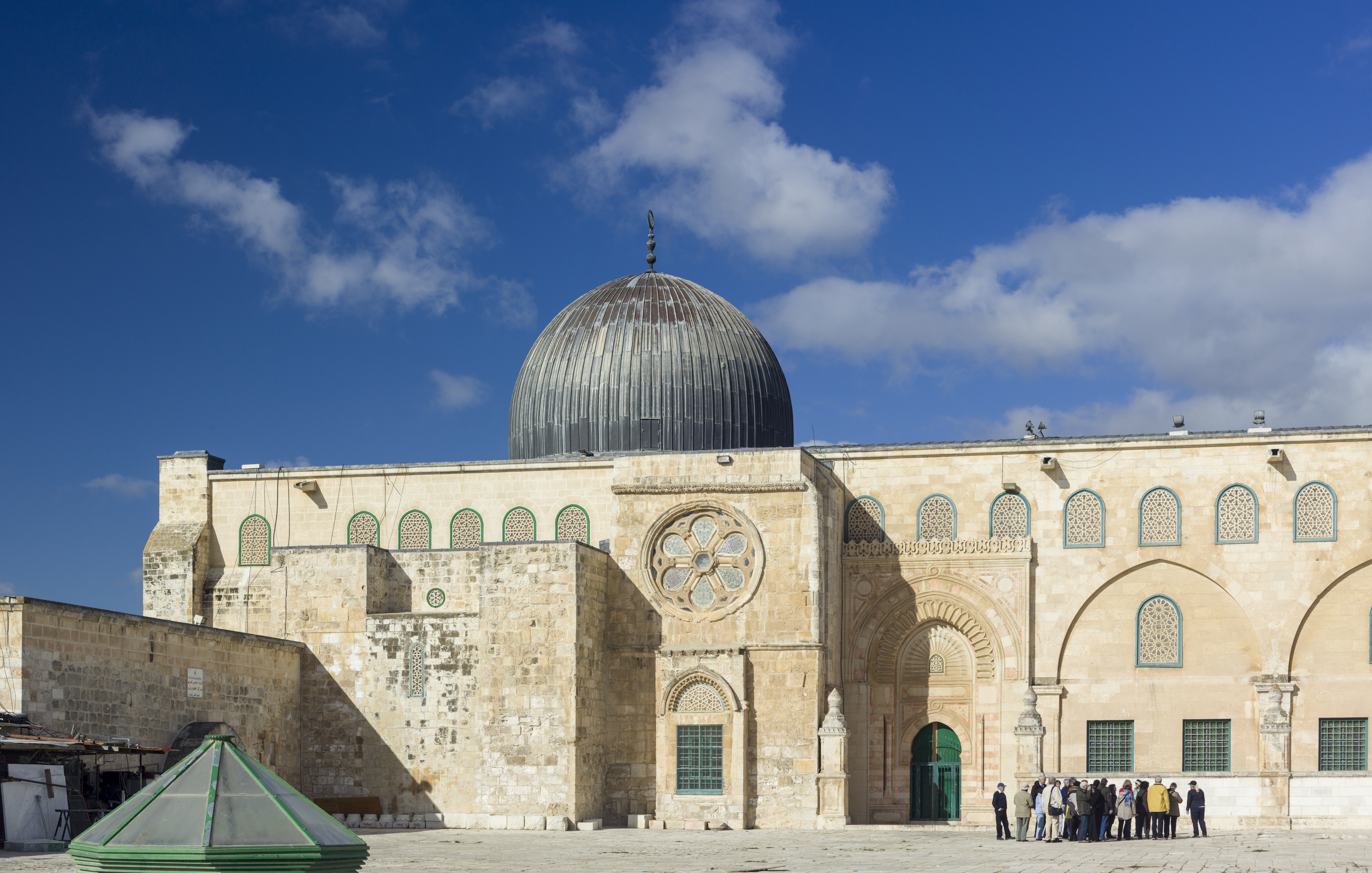 Eastern façade of Al-Aqsa Mosque, Temple Mount, Old City of Jerusalem.